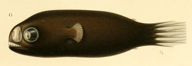 Linophryne indica from Bauer 1908. Note Bauer labeled this Aceratias macrorhinus indicus.